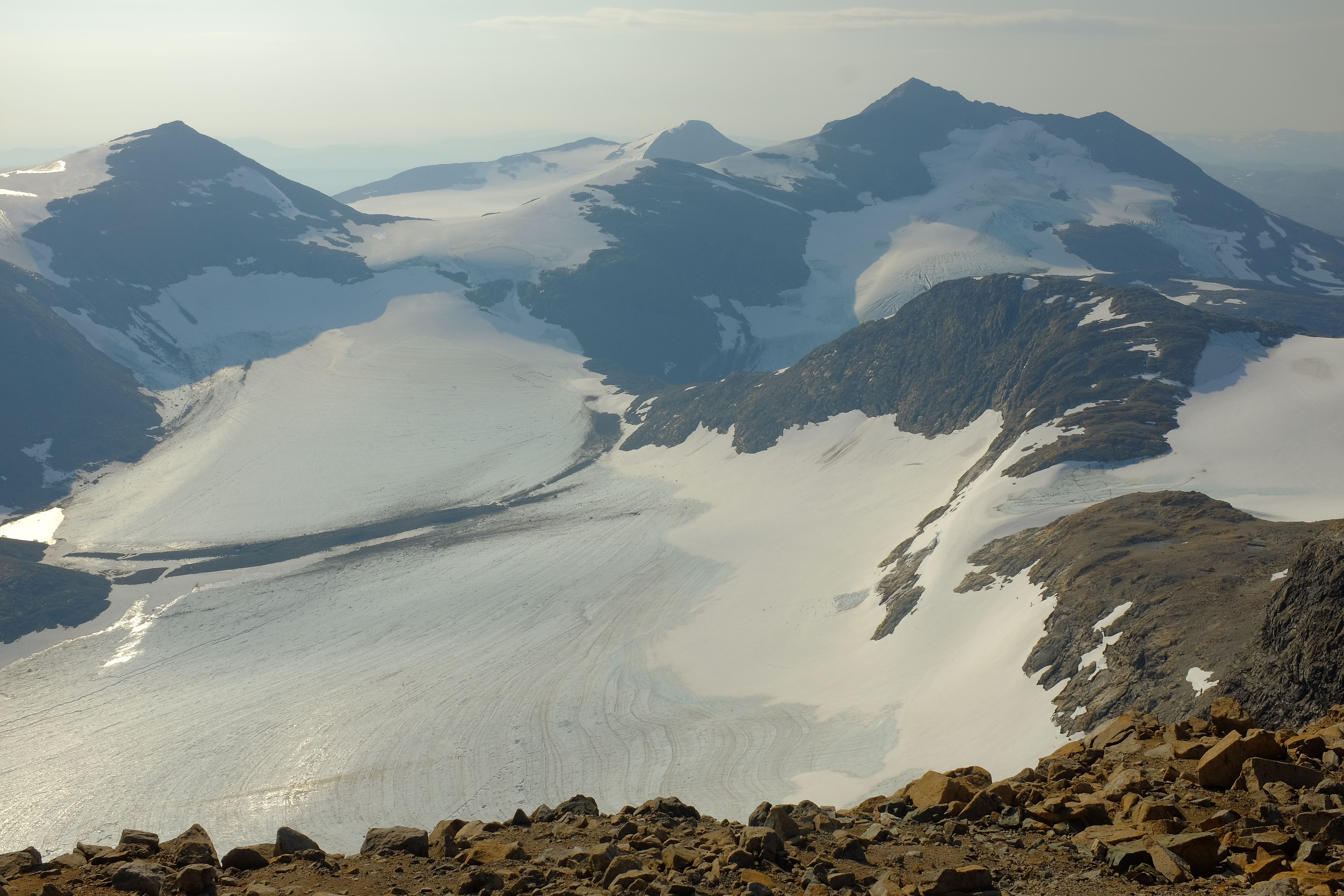 Sulitjelma is a mountain area in Norway and Sweden in the municipalities of Fauske and Jokkmokk. The glaciers form the basis for large watercourses.